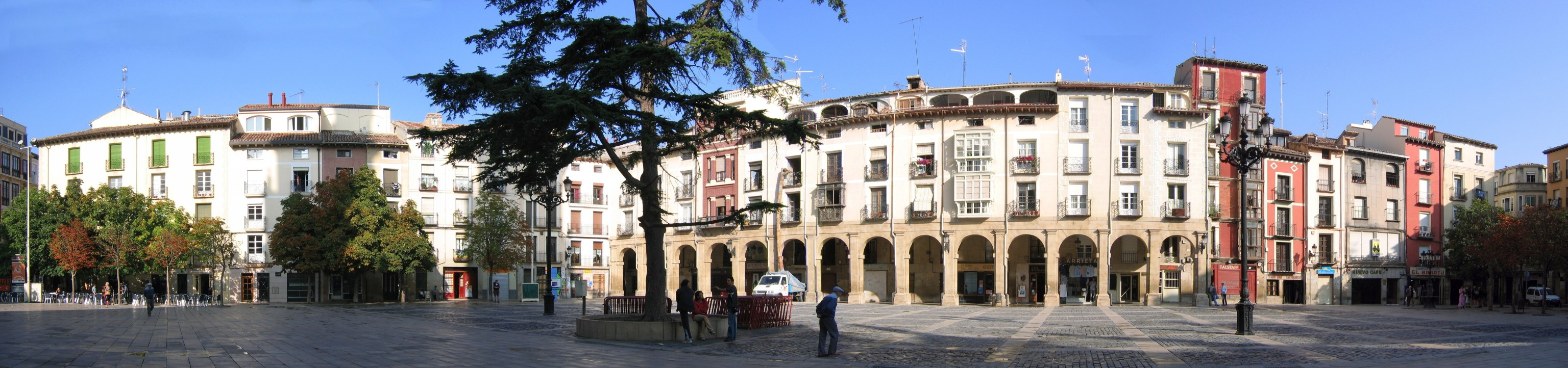 Place in the city of Logrono (Rioja) in Spain